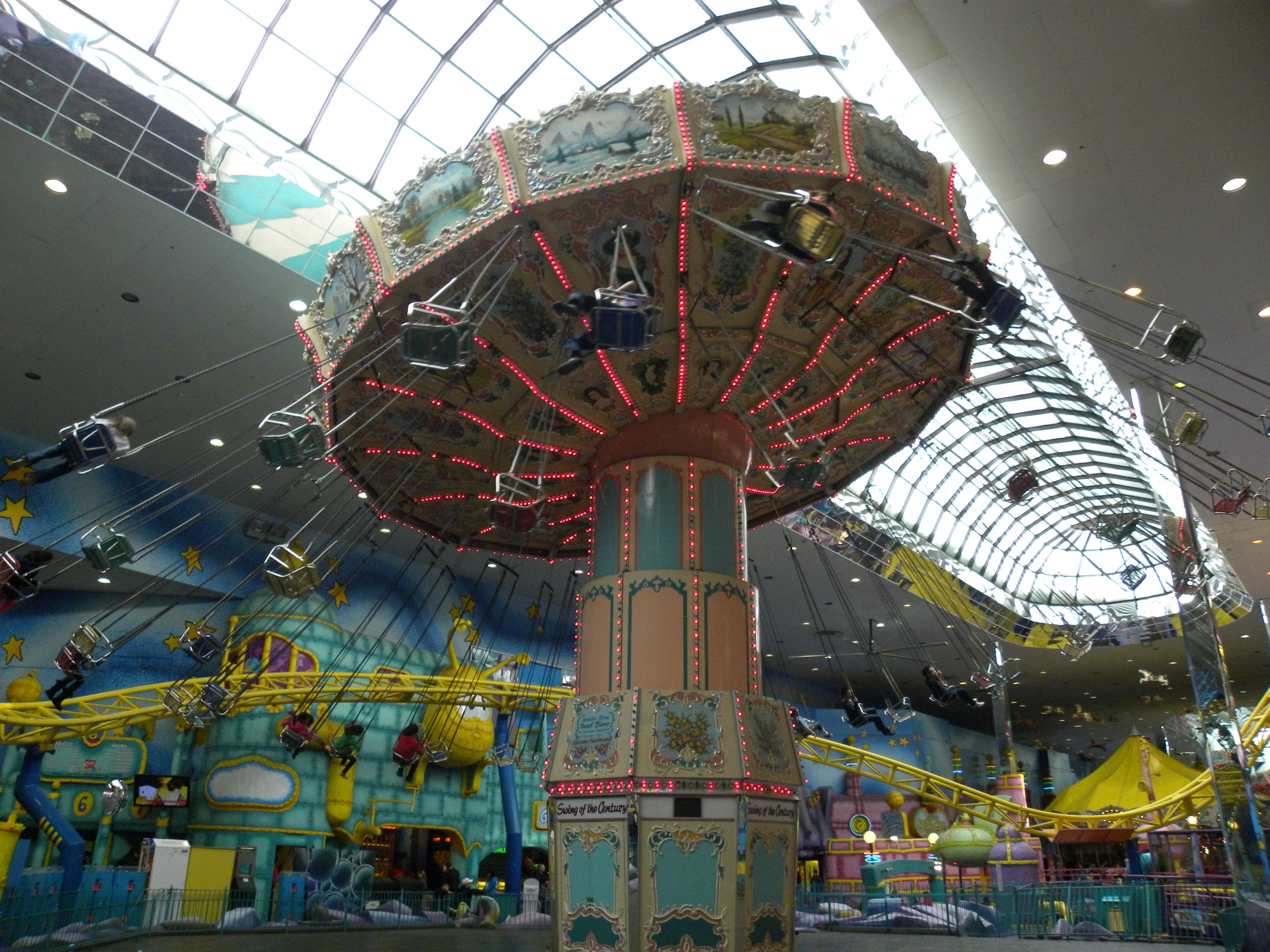 Swing of Century, West Edmonton Mall